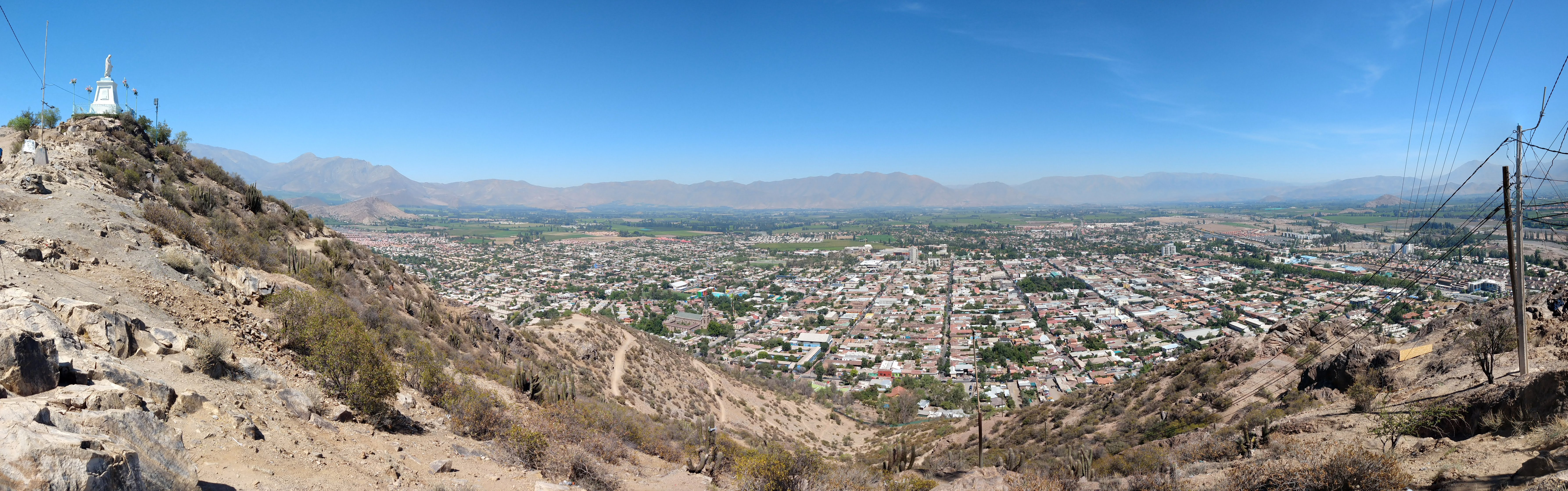 Panoramic picture taken from Cerro La Virgen looking towards the city of Los Andes, Chile.